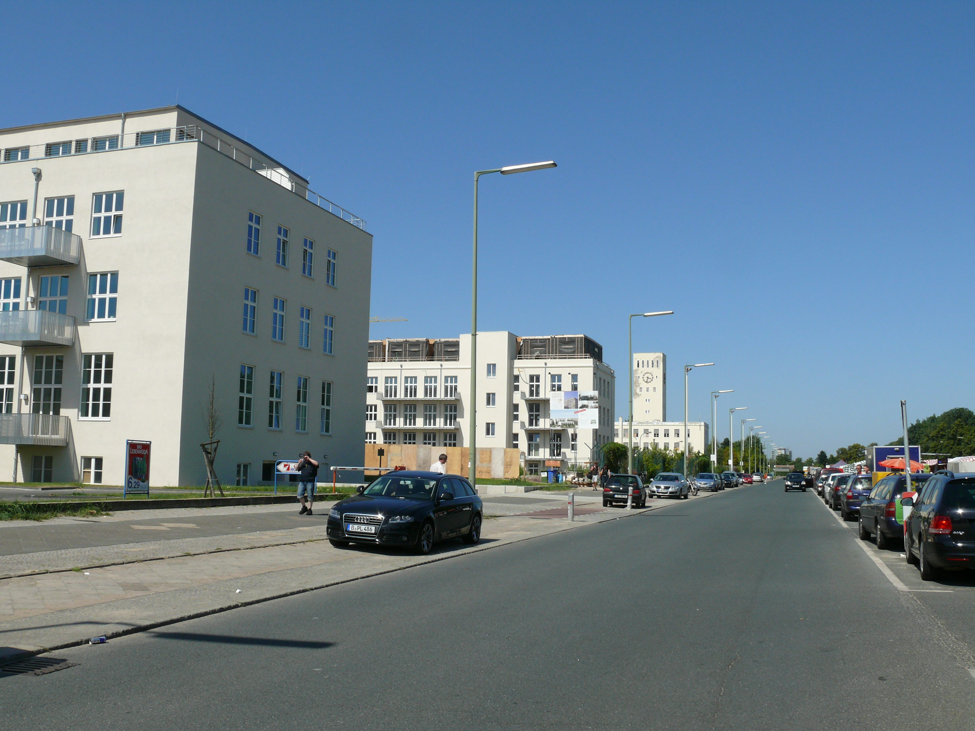 Berlin-Lichterfelde Platz des 4. Juli